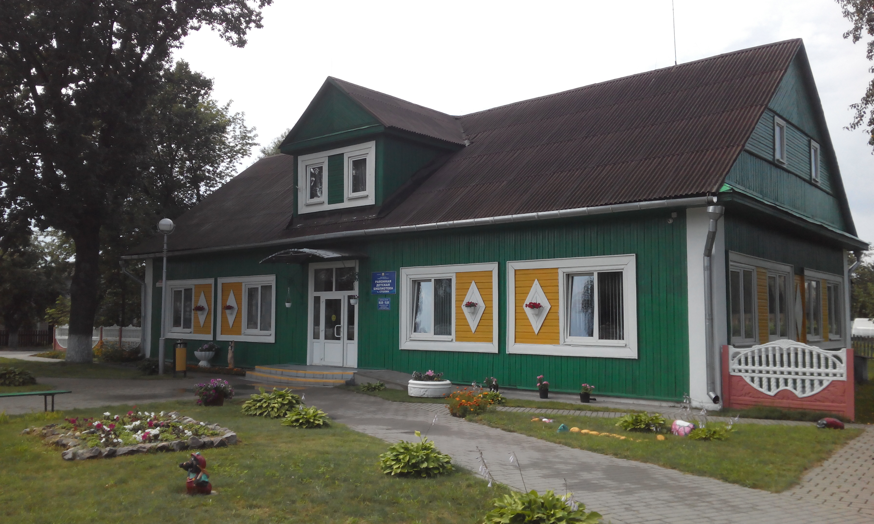 Children's library in Stolin, Belarus